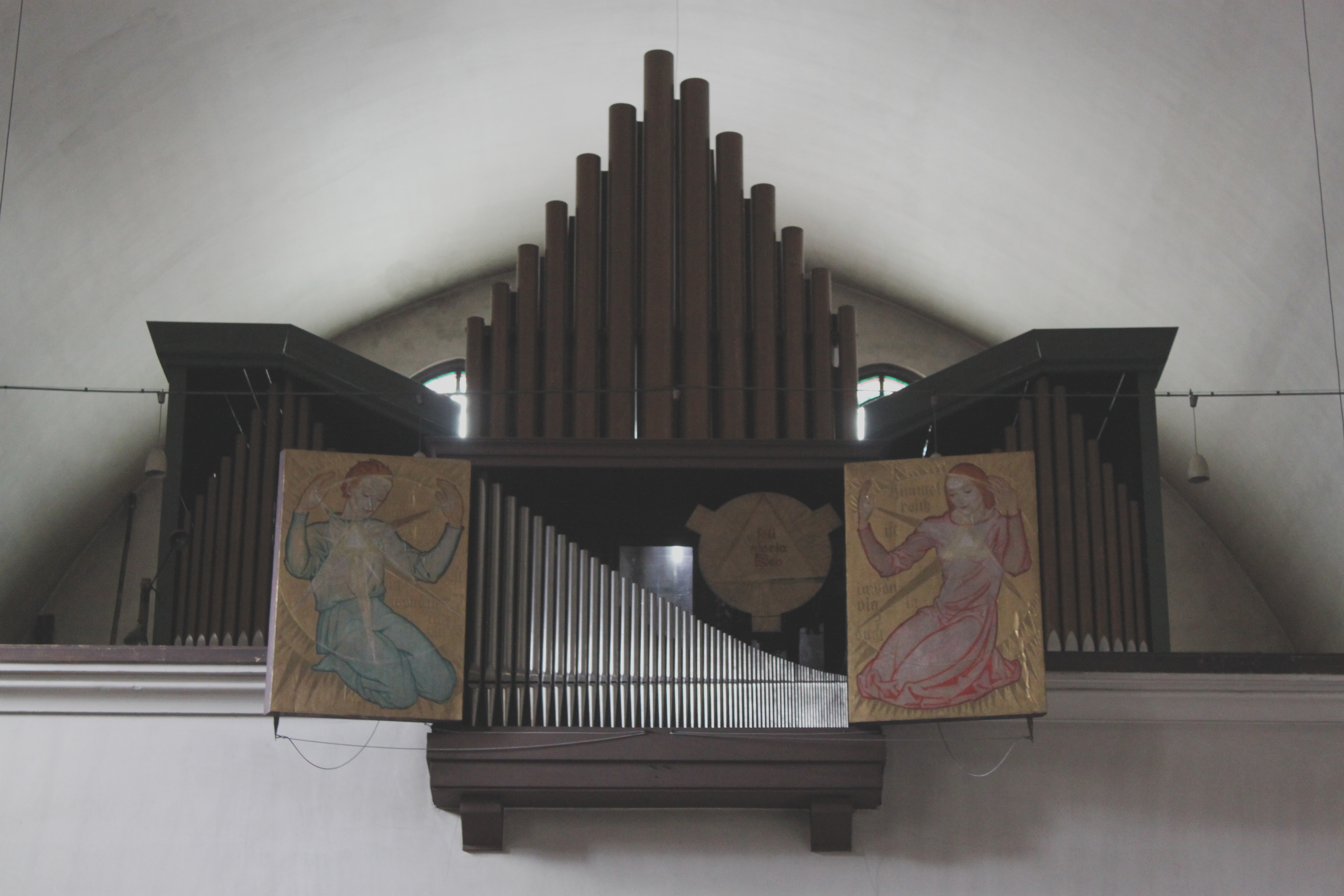 Organ of the Alt-Ottakring parish church in Vienna, built between 1935 and 1938 by Wilhelm Zika and Josef Mertin